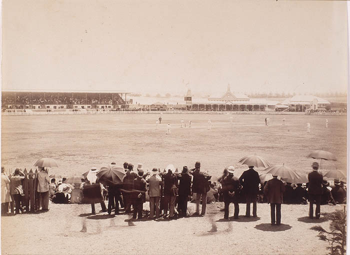 Format: Albumen photoprint Notes: Find out more about our passion for cricket at Discover Collections - Cricket in Australia From the collections of the Mitchell Library, State Library of New South Wales Information about photographic collections of the State Library of New South Wales: .au/search/SimpleSearch.aspx Persistent url: .au/item/itemDetailPaged.aspx?itemID=153418